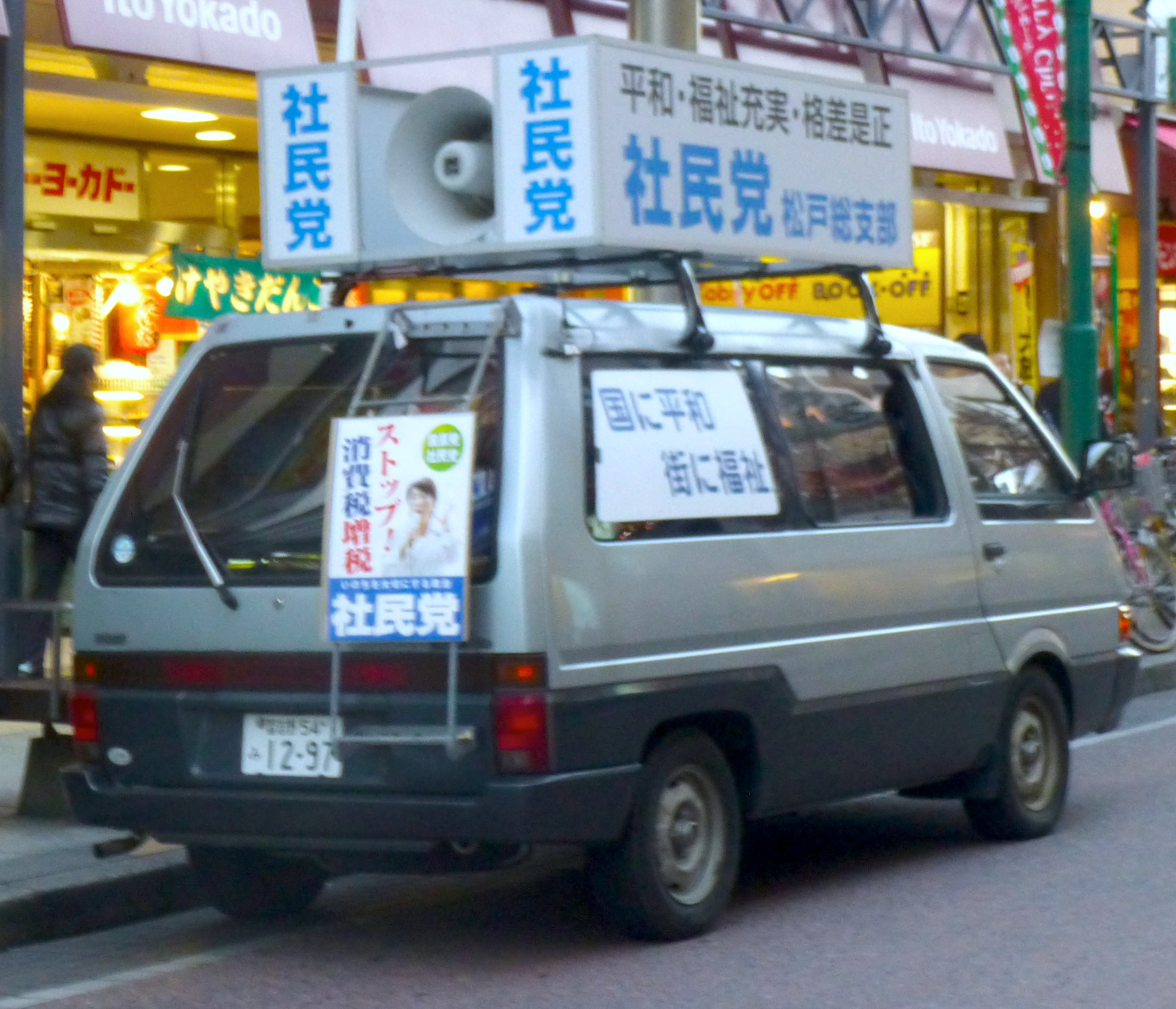 Social Democratic Party of Japan campaign van near Kashiwa station